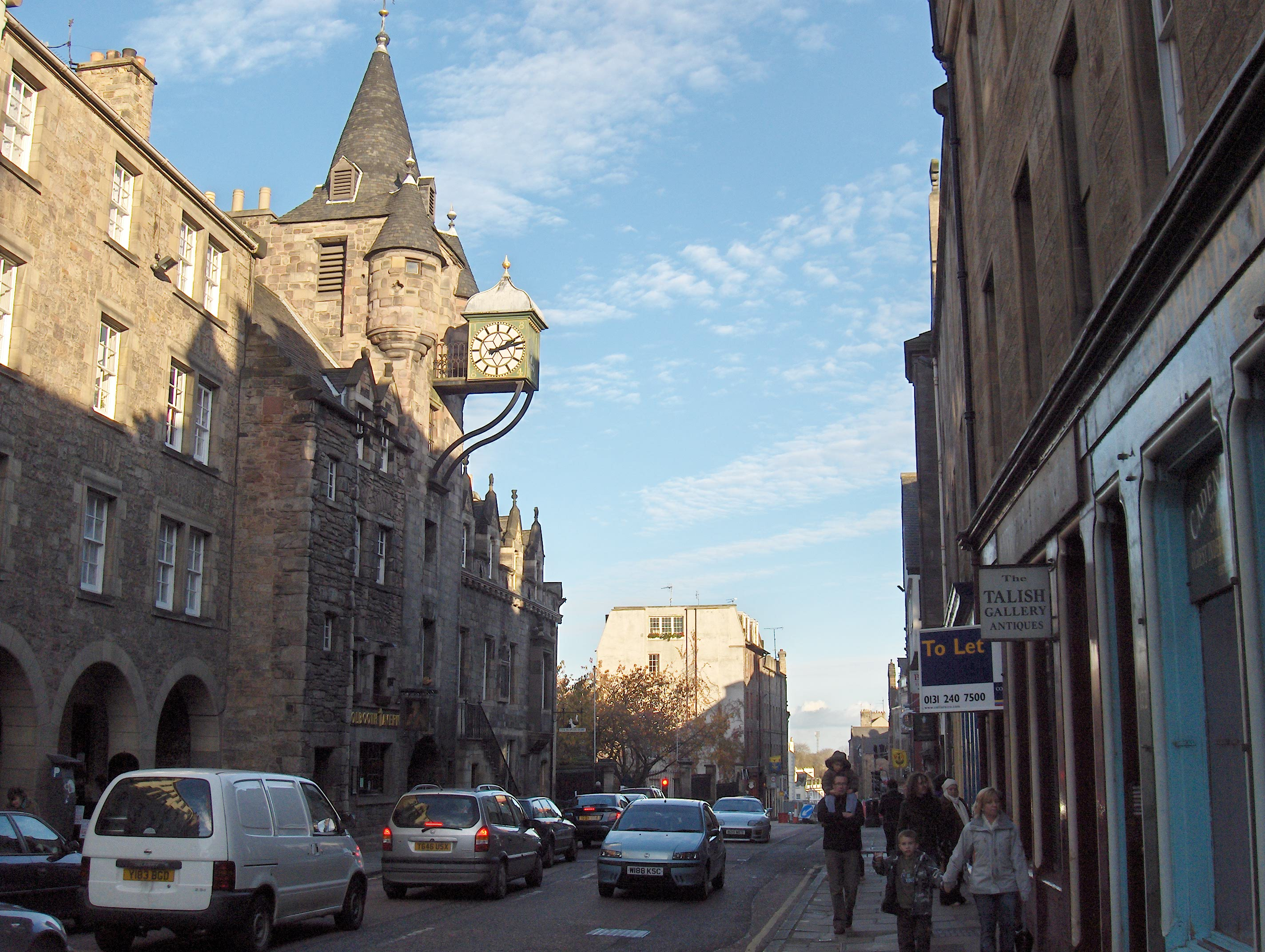 View looking down the Canongate, Edinburgh (with the Tolbooth on the left)